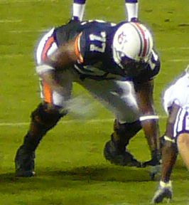 If used somewhere other than Wikipedia, Nelson, by name.